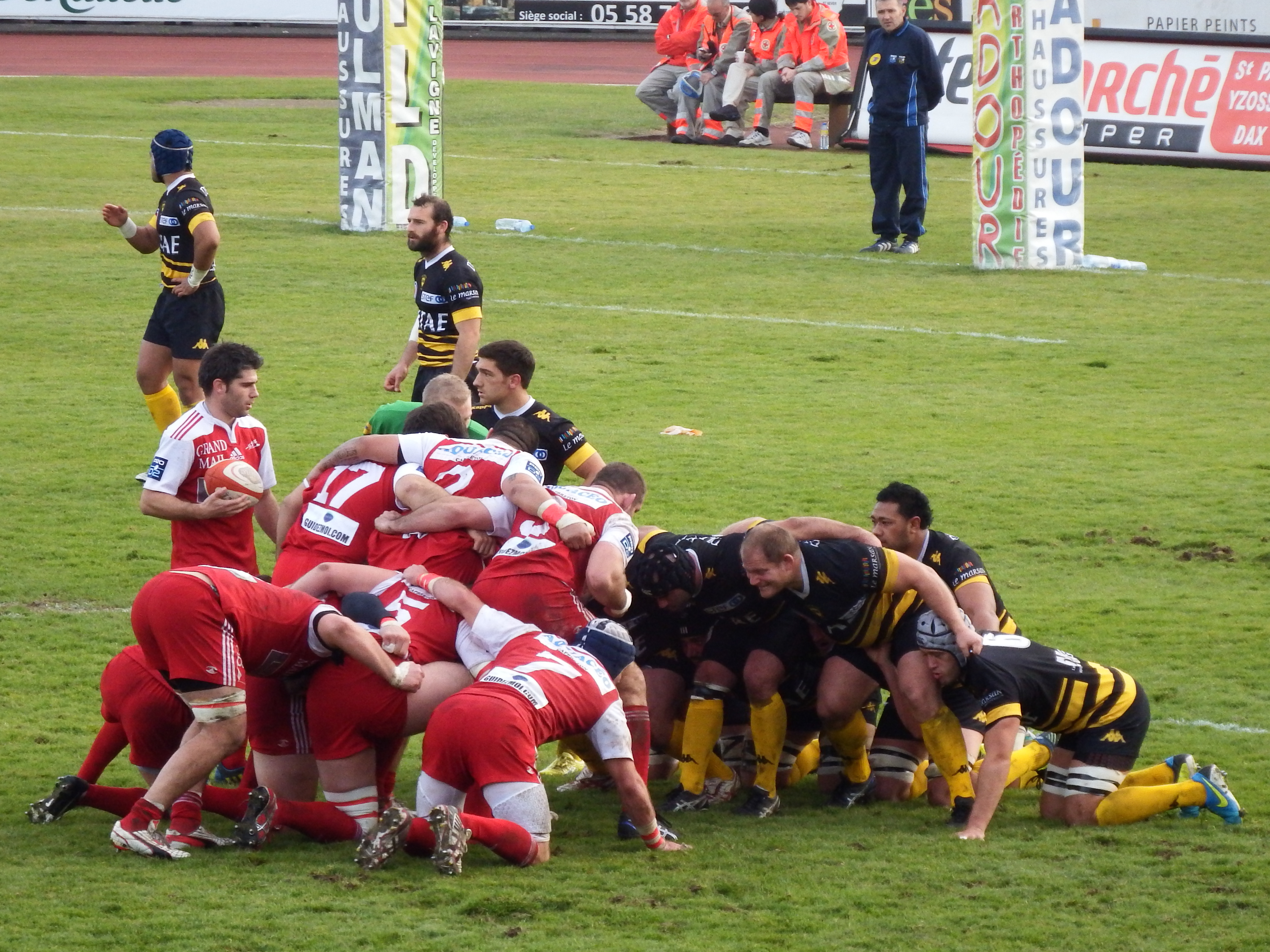 2013–14 Rugby Pro D2 season — 22 December 2013, stade Maurice-Boyau. Match between: US Dax — Stade Montois